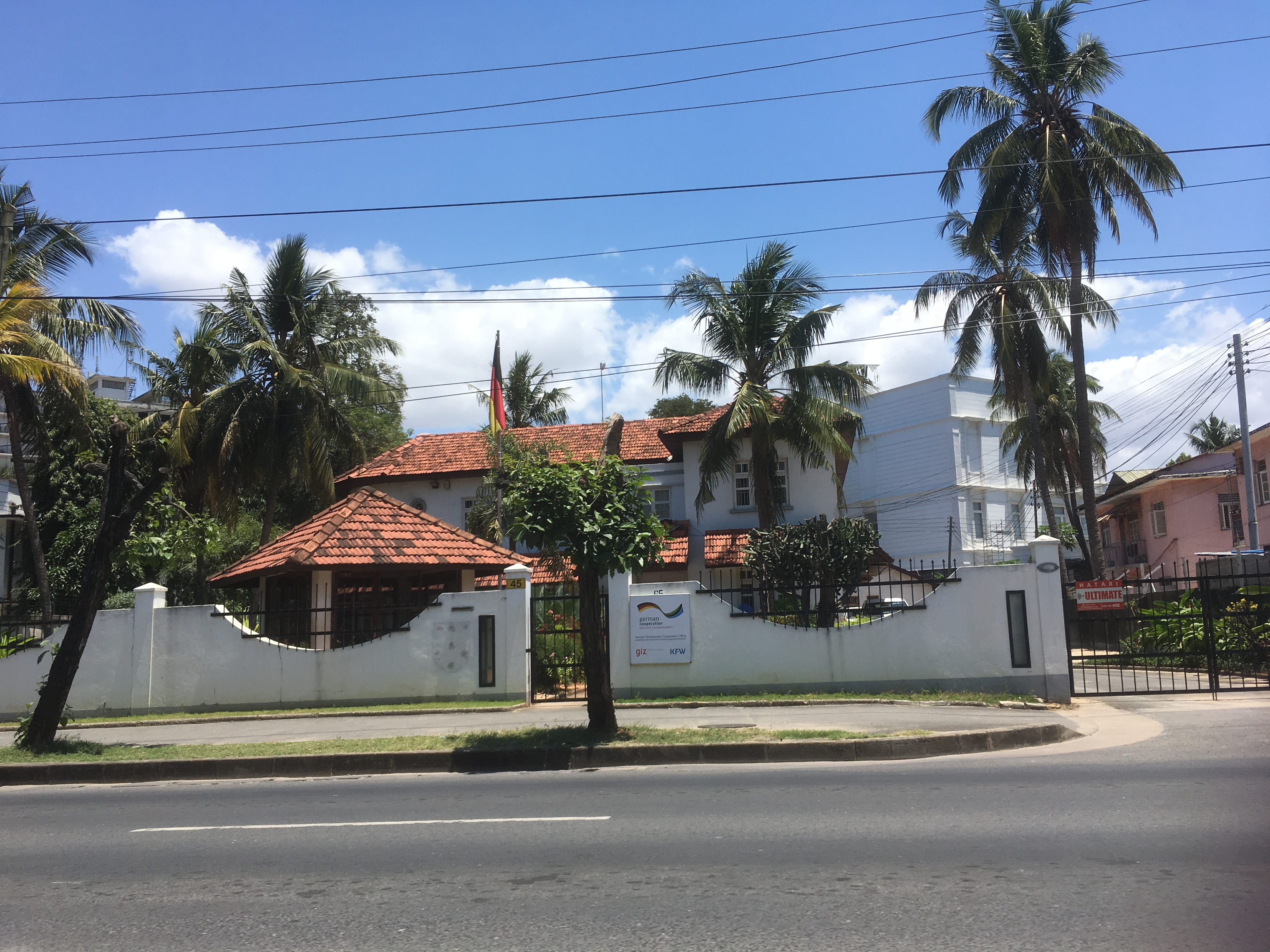 German Corporation for International Cooperation (GIZ) Office in Dar es Salaam, Tanzania.